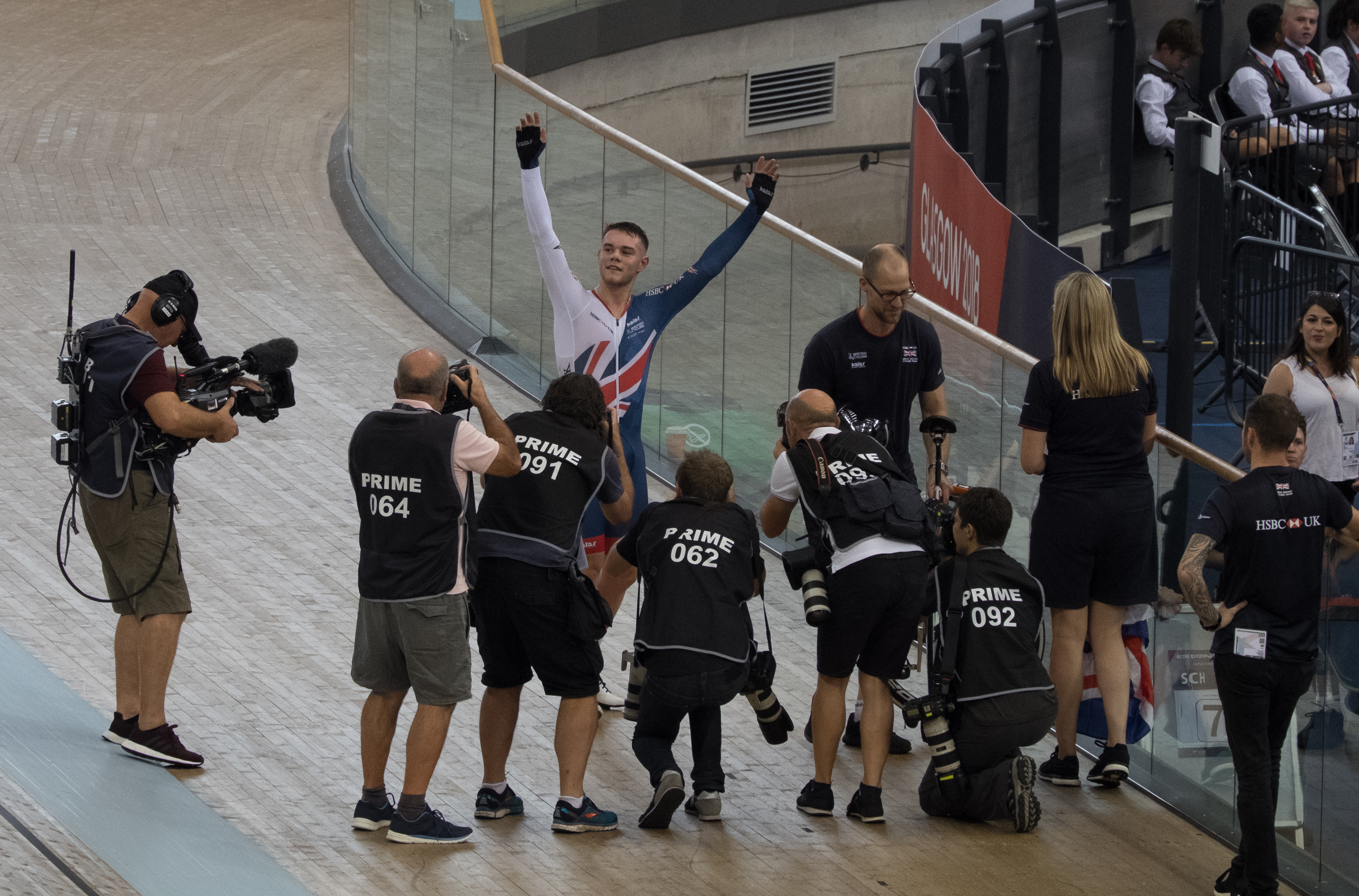 2018 UEC European Track Championships